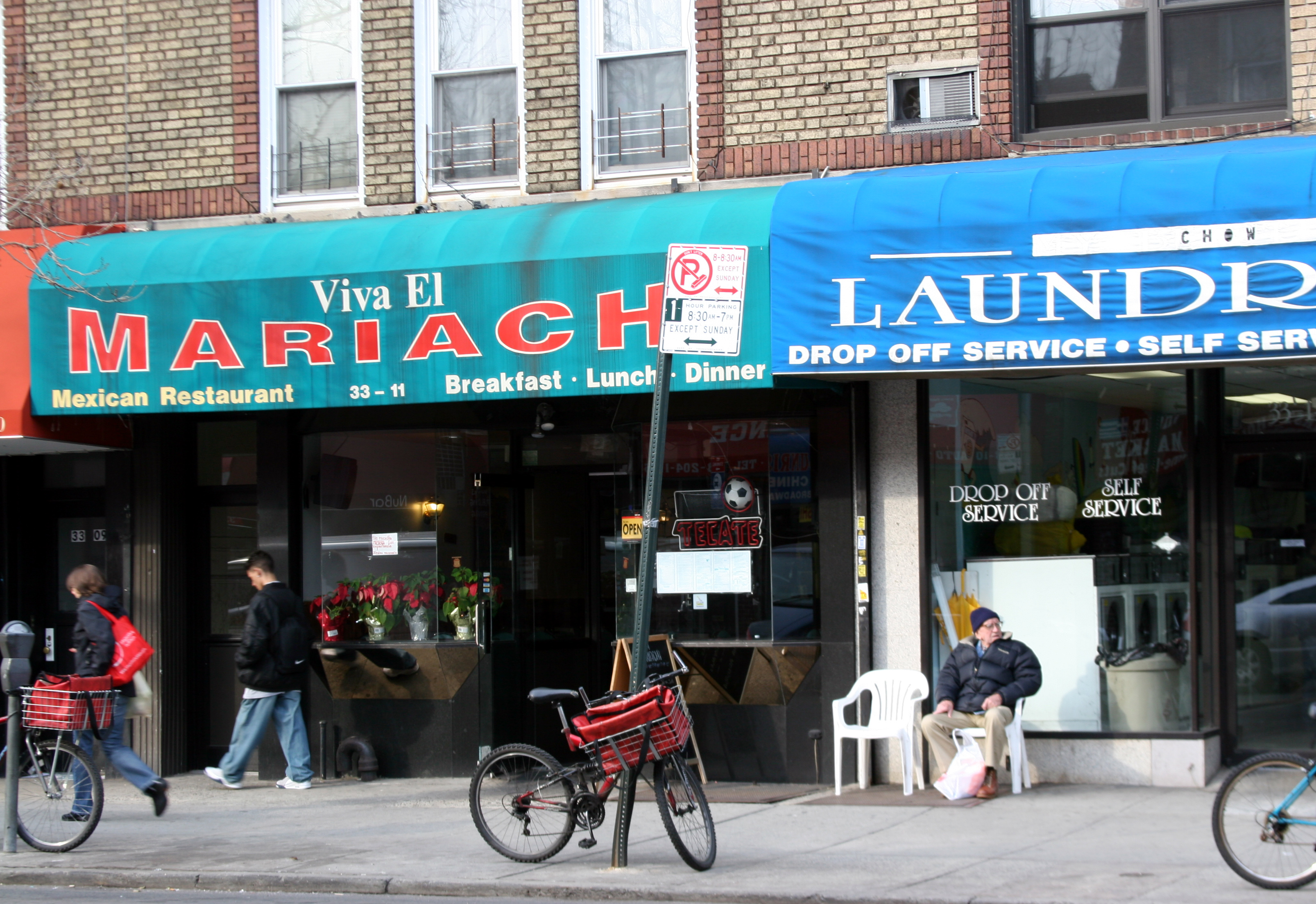 Mexican restaurant and shops in Astoria, Queens, NYC. Photo by User:Aude, taken on March 26, 2007.